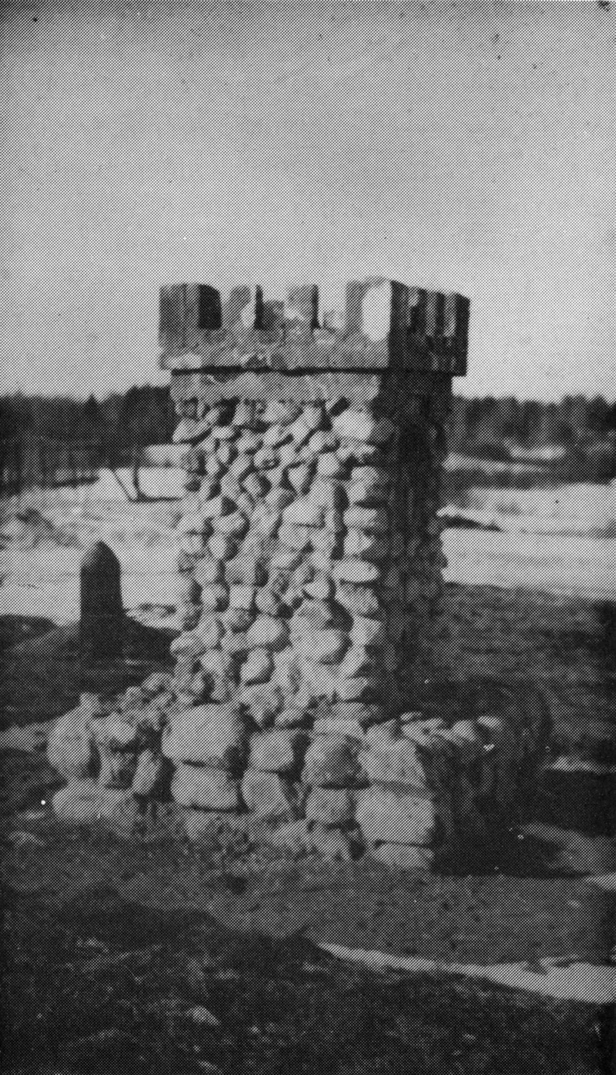 Monument over the battle in Schemenski in April 1942.